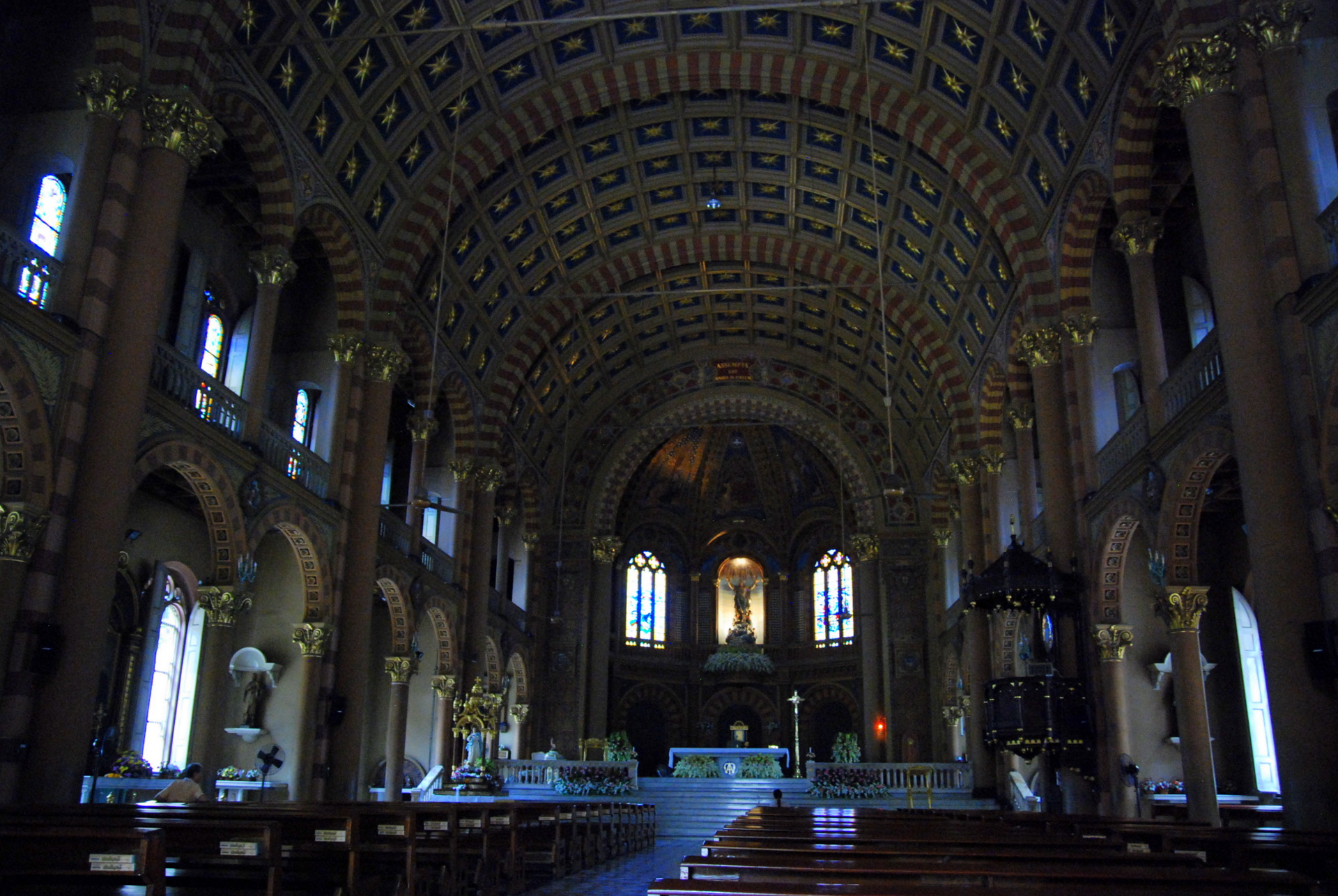 The interior of Assumption Cathedral in Bangkok.